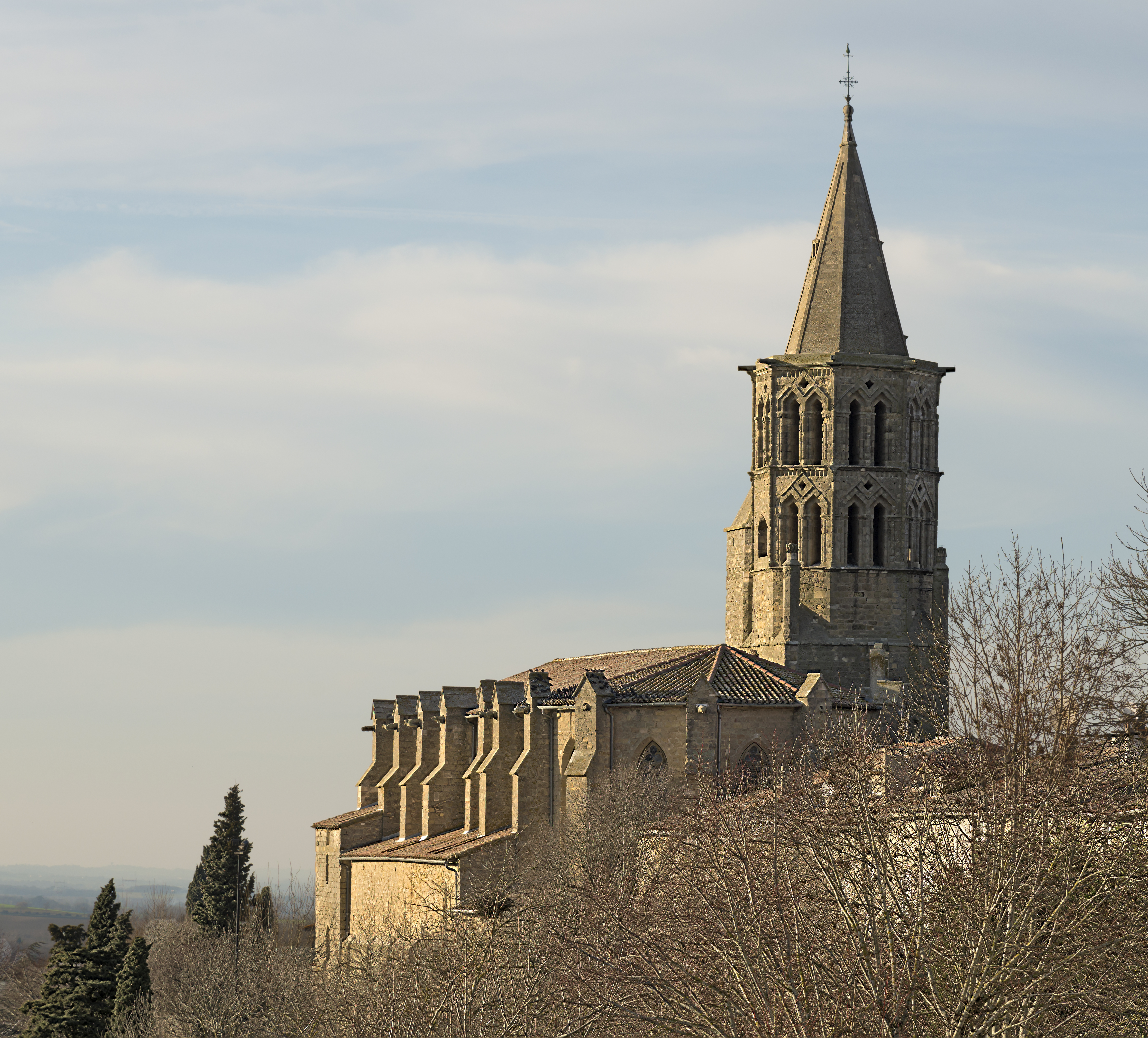 Saint-Félix-Lauragais. Church Saint-Felix view south ramparts.